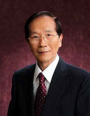 Akira Endō, Director of the Biopharm Research Laboratories, Inc., received the Person of Cultural Merit on November, 2011.